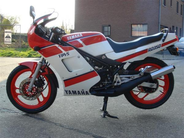 RD 350, limited edition, 1989.